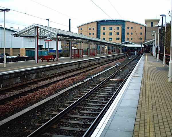 Forster Square Station, Bradford in 2004.